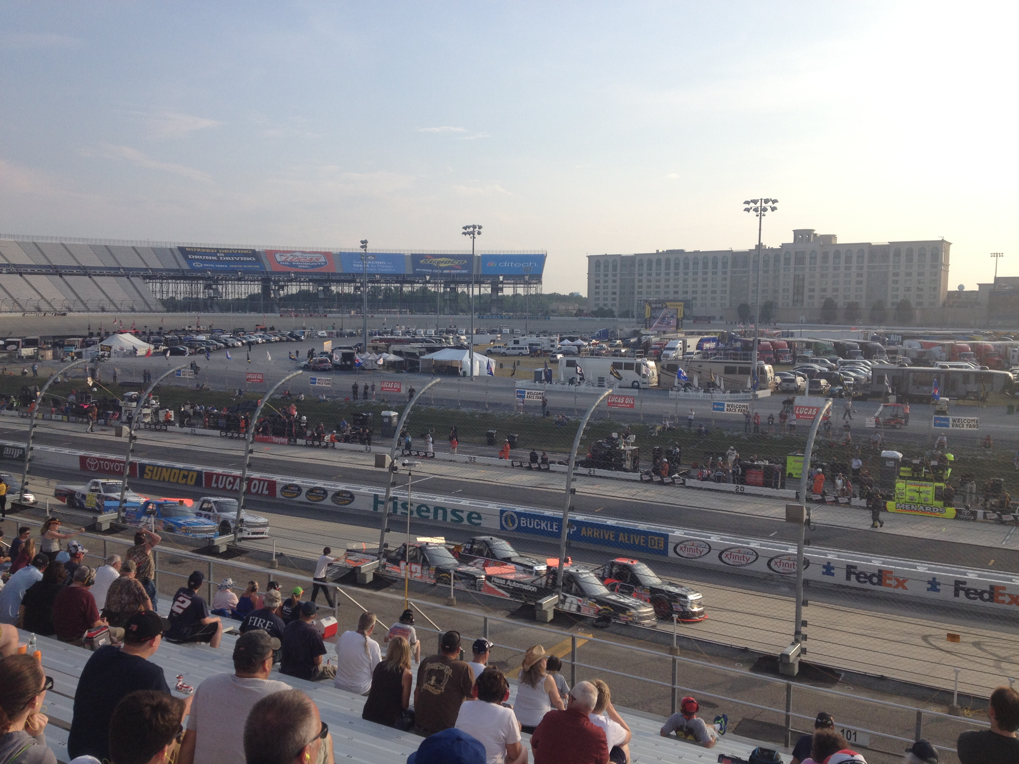 The 2015 Lucas Oil 200 at Dover International Speedway viewed from the frontstretch, with Cole Custer (#00) leading the field following the restart from a caution.